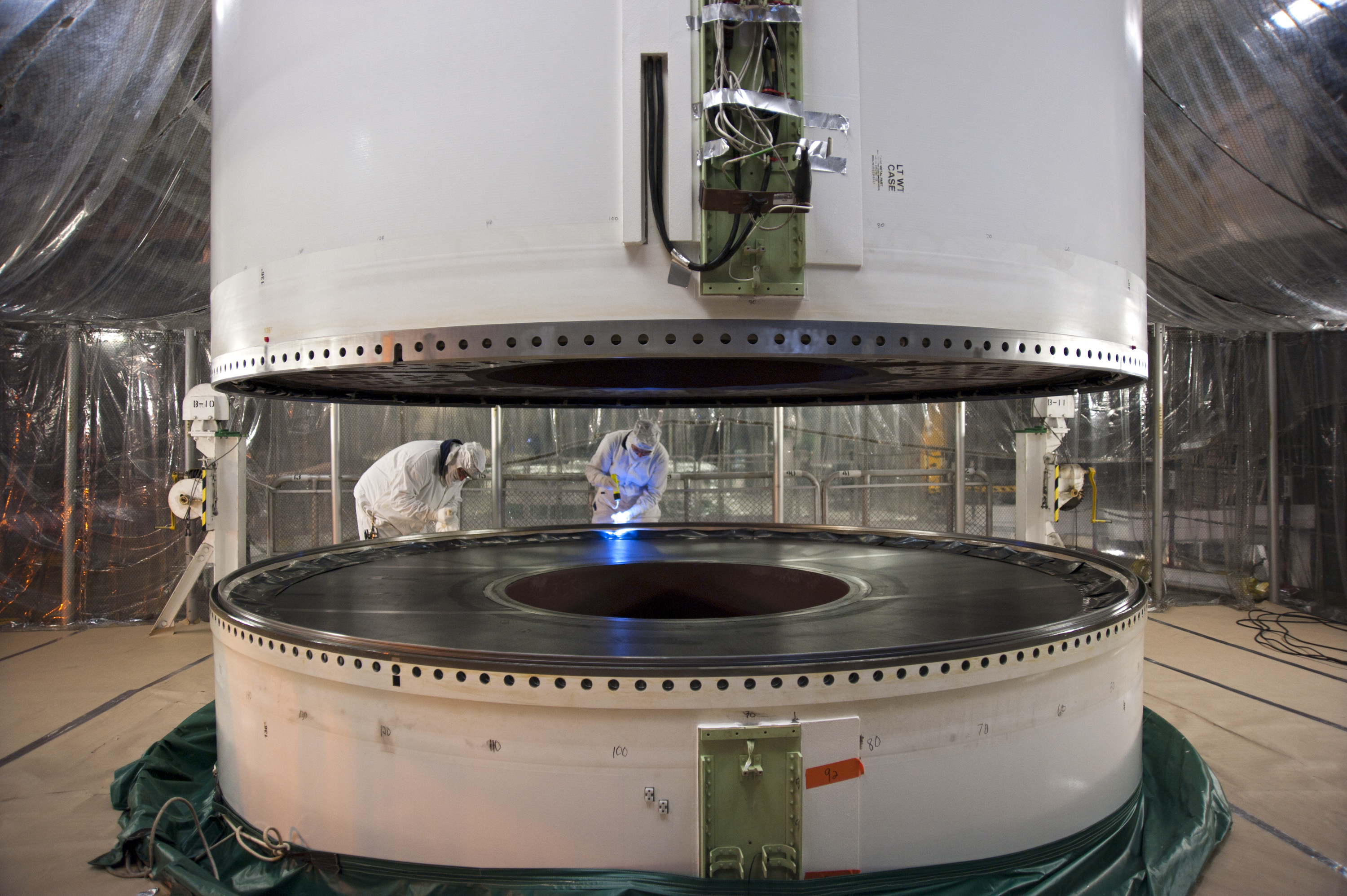 CAPE CANAVERAL, Fla. – In the Vehicle Assembly Building at NASA's Kennedy Space Center in Florida, technicians check the channel around the circumference of the left forward center solid rocket booster segment for dirt and debris before processing continues. The booster along with its twin will be stacked on the mobile launcher platform along with an external fuel tank awaiting the arrival of space shuttle Endeavour for its flight to the International Space Station. As the final planned mission of the Space Shuttle Program, Endeavour and its crew will deliver the Alpha Magnetic Spectrometer, as well as critical spare components to the station on the STS-134 mission targeted for launch Feb. 26, 2011. For more information visit